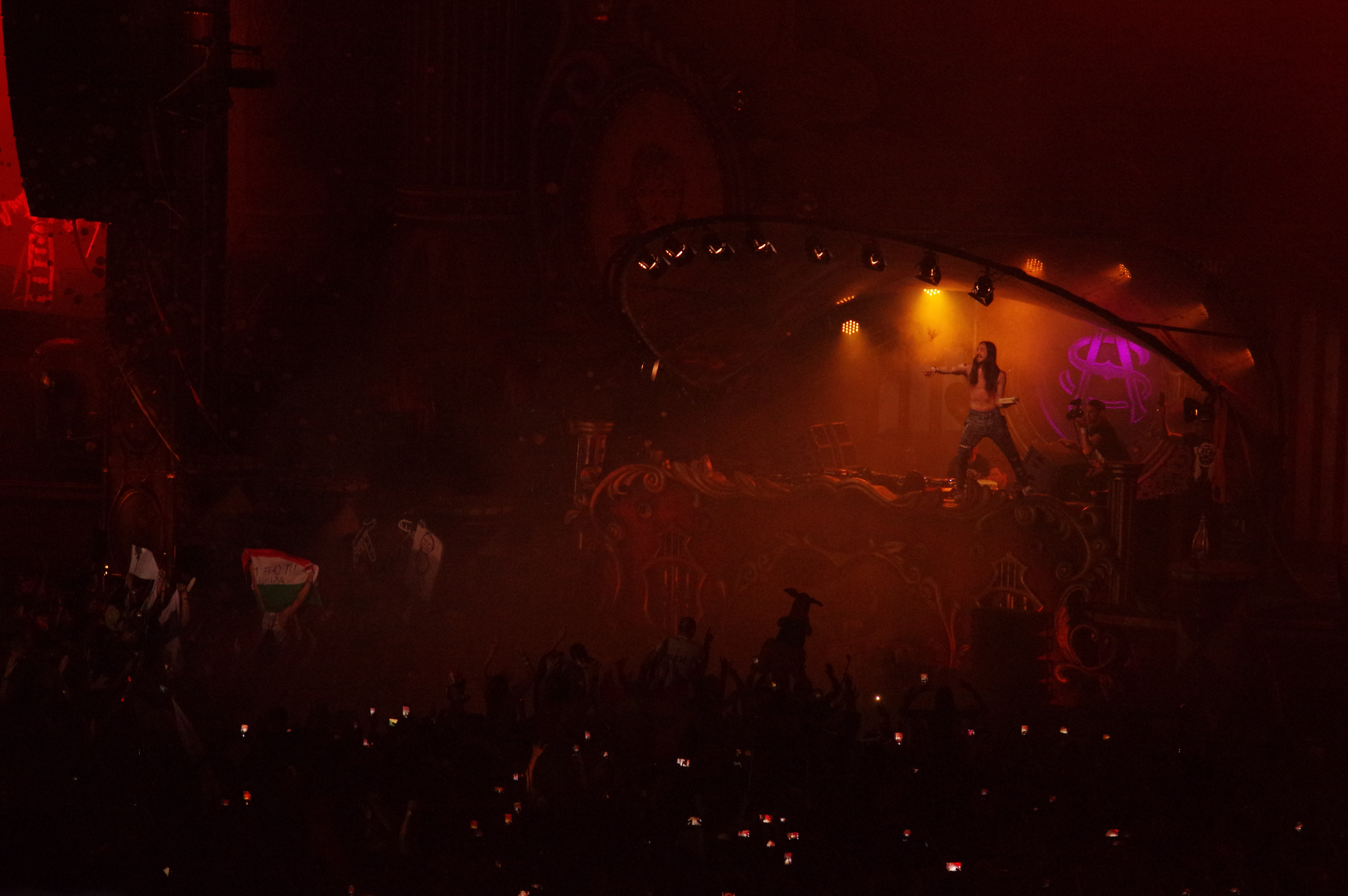 Steve Aoki at Tomorrowland festival 2017 in Boom, Belgium - preparing to throw a cake into the audience